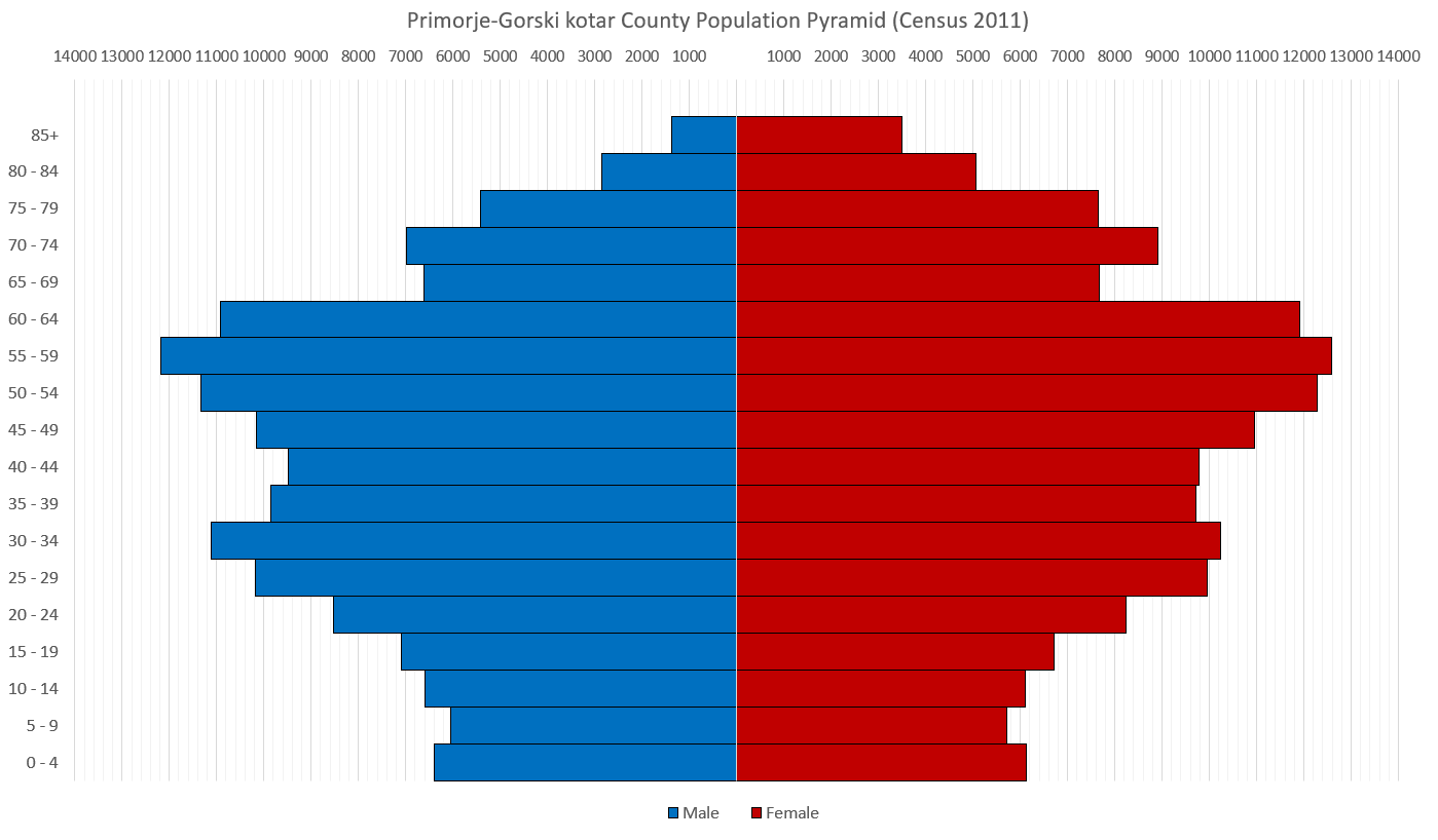 Population pyramid of Primorje-Gorski kotarCounty. Version in English. Data from 2011 Census; available at